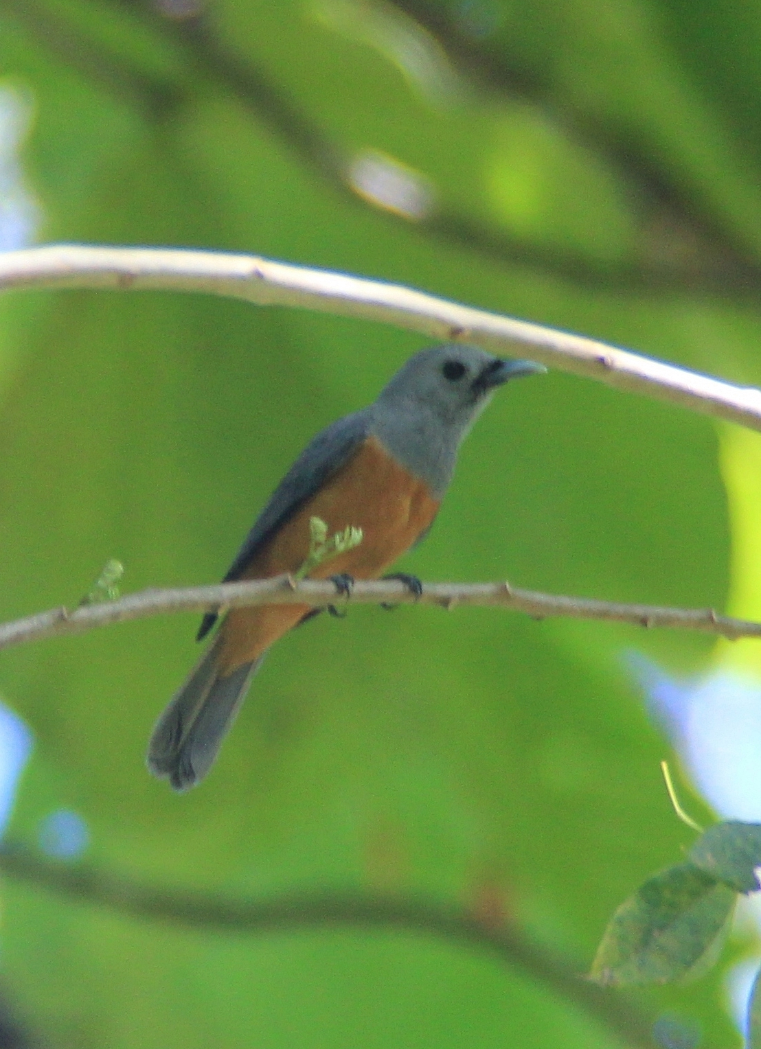 Island monarch (Monarcha cinerascnes) at Binalang, Talaud